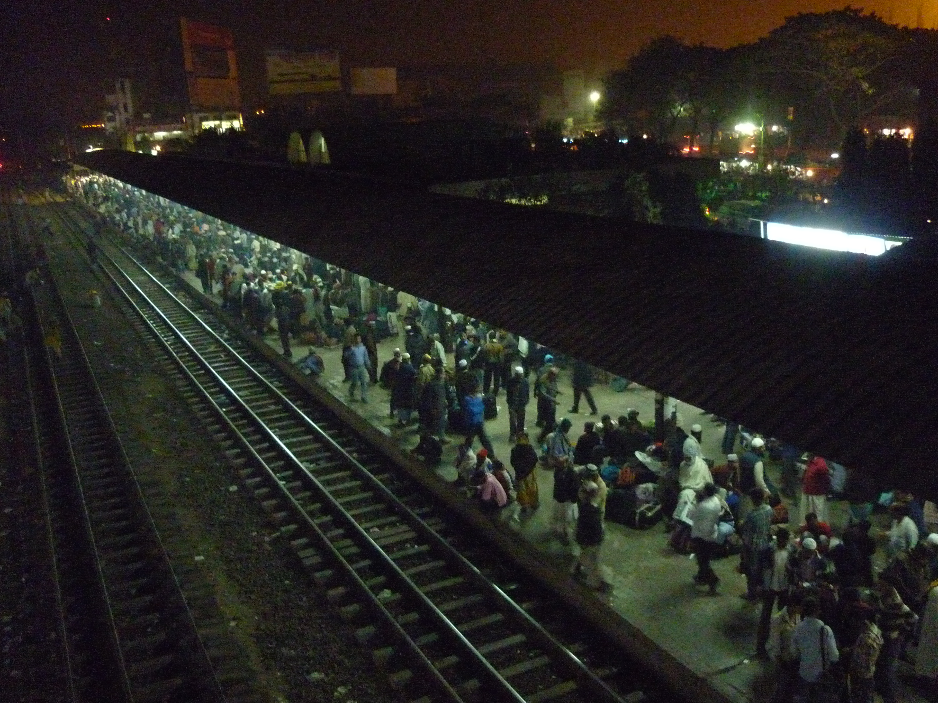 People gathered at Airport Rail Station, Dhaka to get back home from Bishwa Iztema.